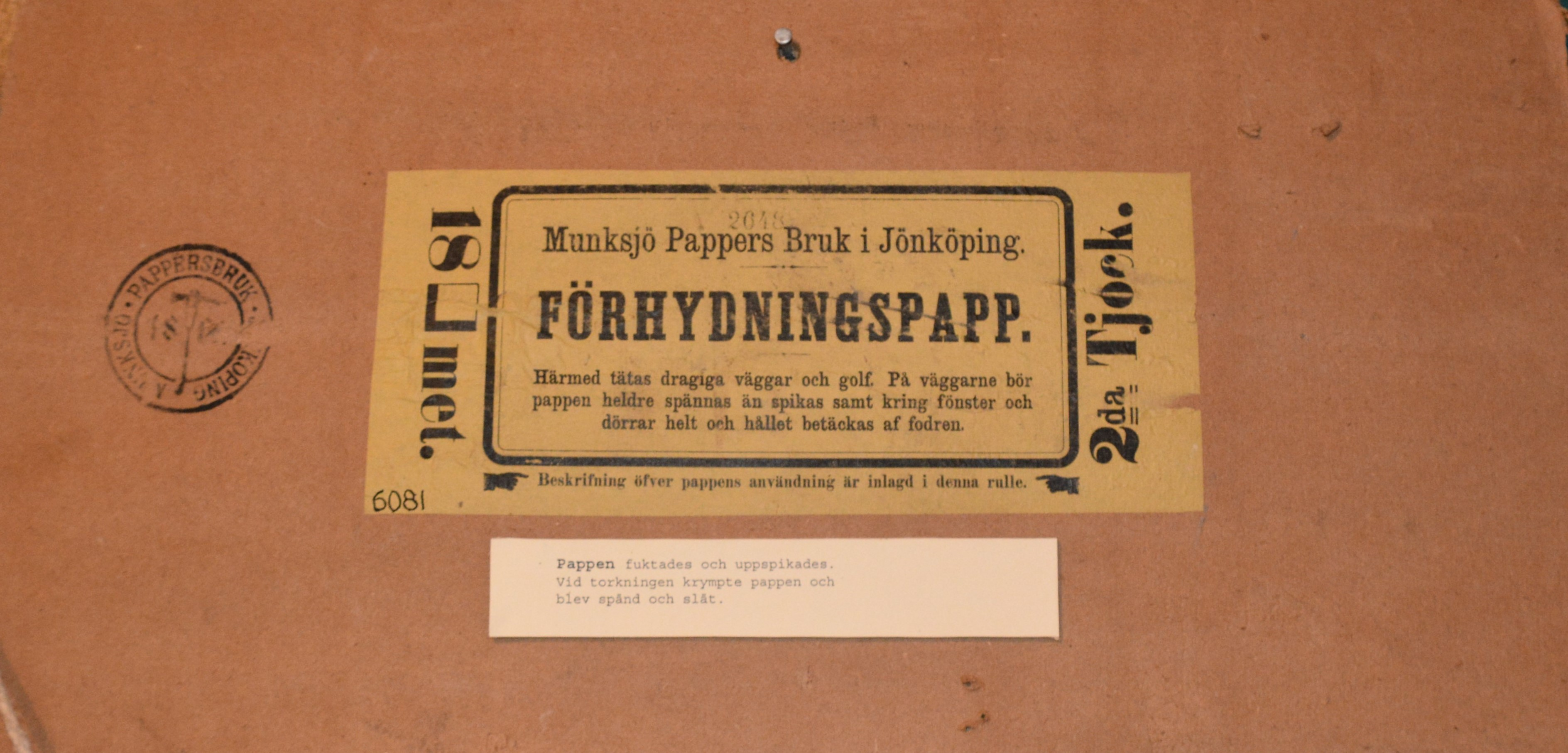 Förhydningspapp